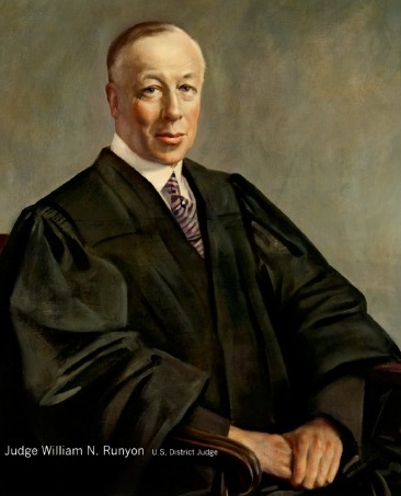 William N. Runyon, Governor of New Jersey and federal judge.